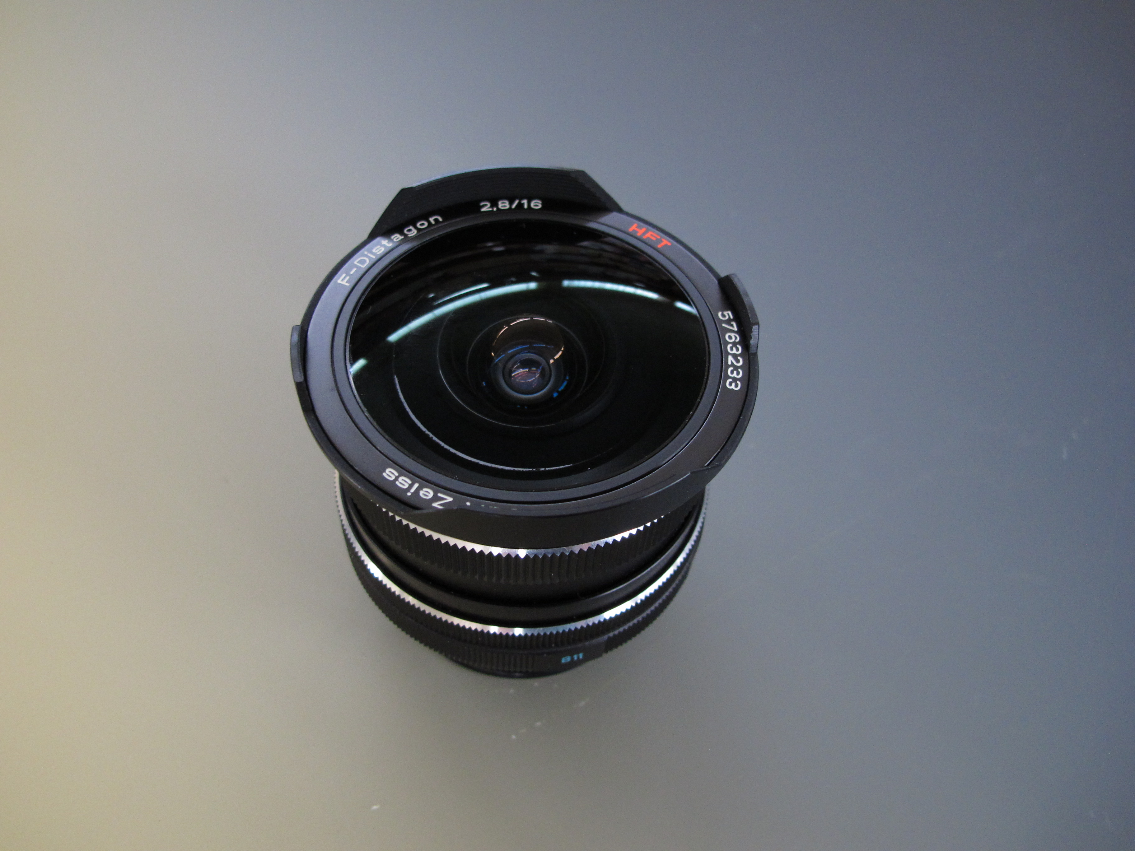 Rollei 2,8/16 Carl Zeiss F-Distagon Fisheye